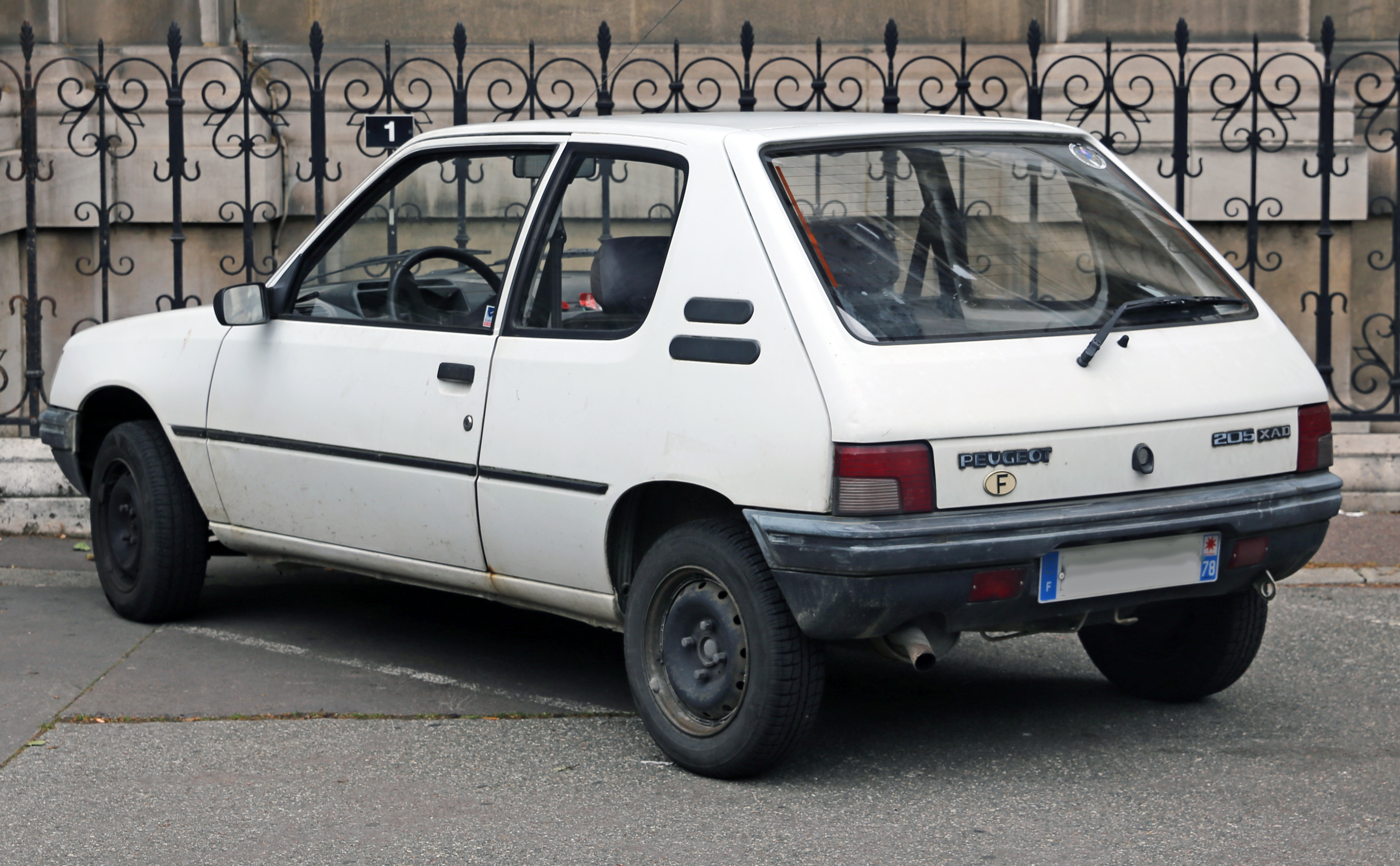 1993 or later Peugeot 205 XAD, a bog-standard two-seater meant for light commercial use.